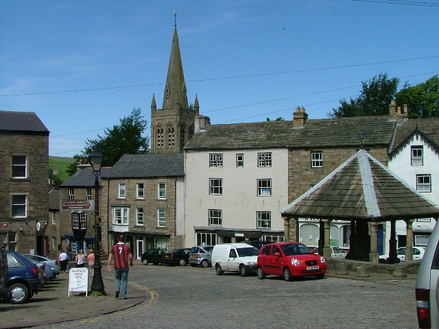 Alston